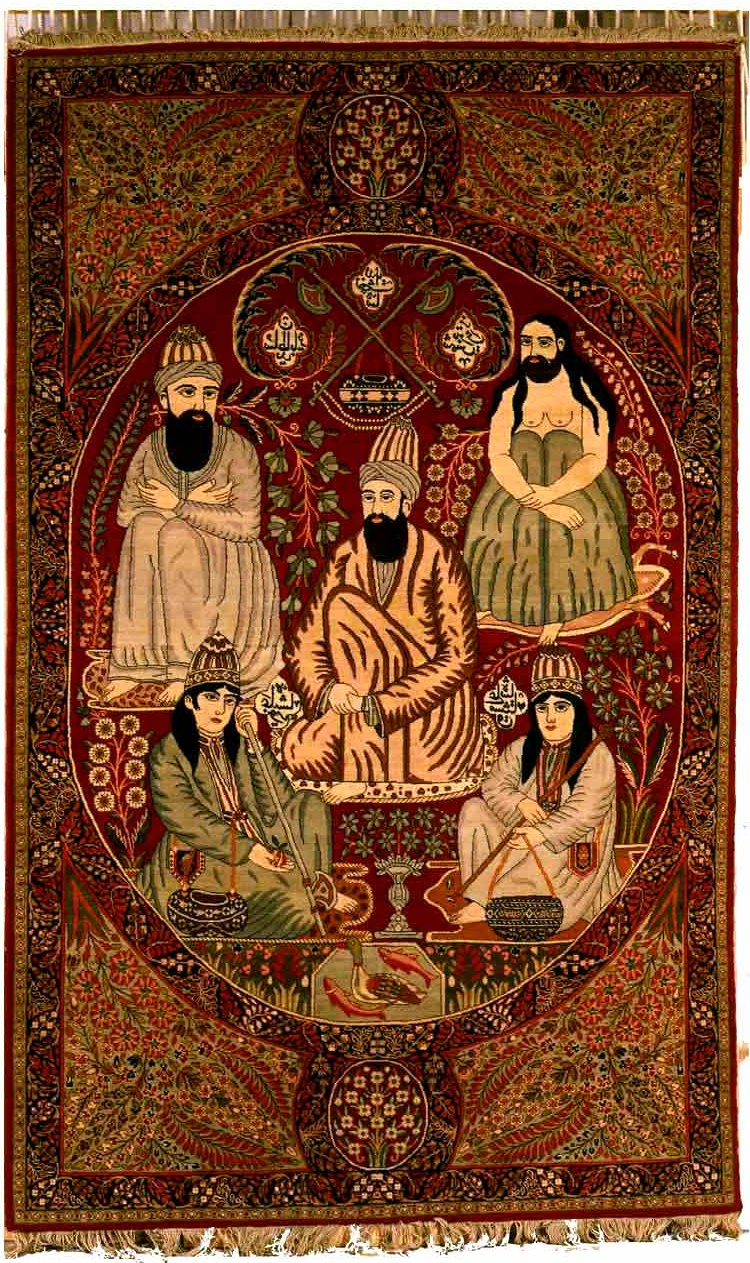 Dervishs azeri rug, XIX c. Tabriz school, State Museum of Azerbaijan Carpet and Applied Art